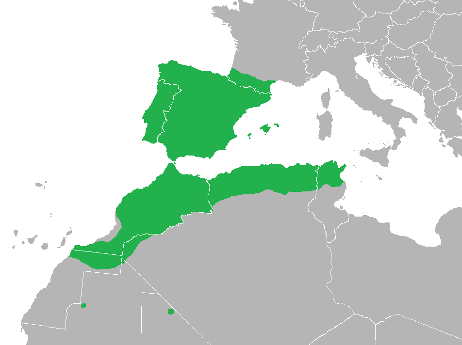 Spanish Golden Eagle Aquila chrysaetos homeryi distribution map.